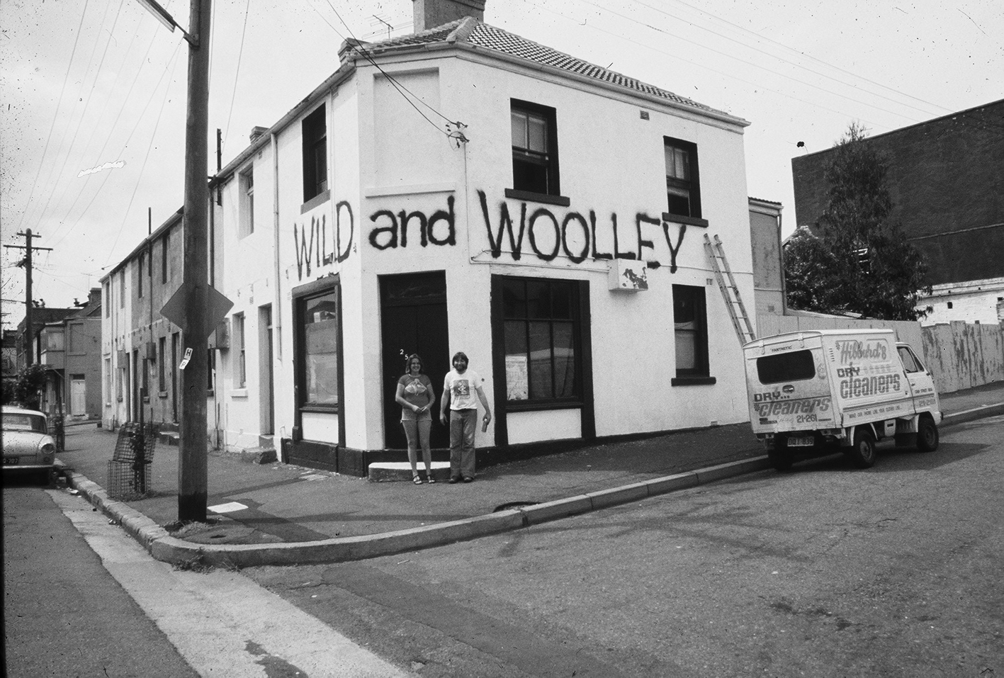 1975, Chippendale NSW Australia. Ron Cobb spray painted the sign on the first Wild & Woolley publishing company building.